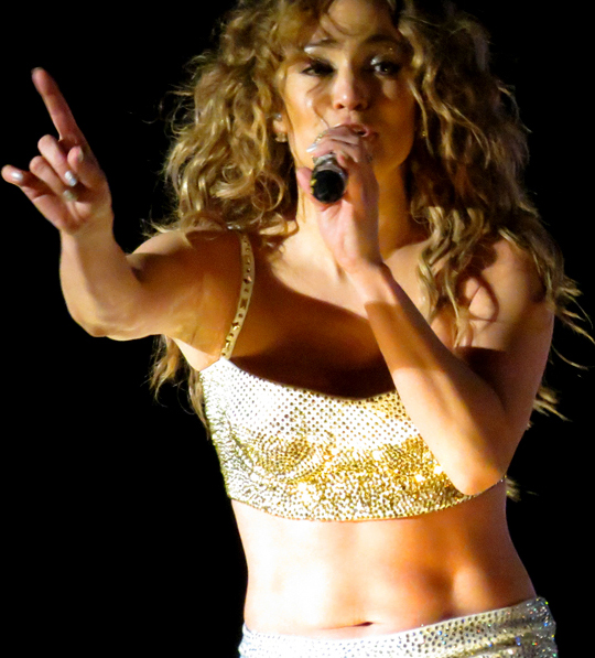 Jennifer Lopez live at the Pop Music Festival in São Paulo, Brazil.